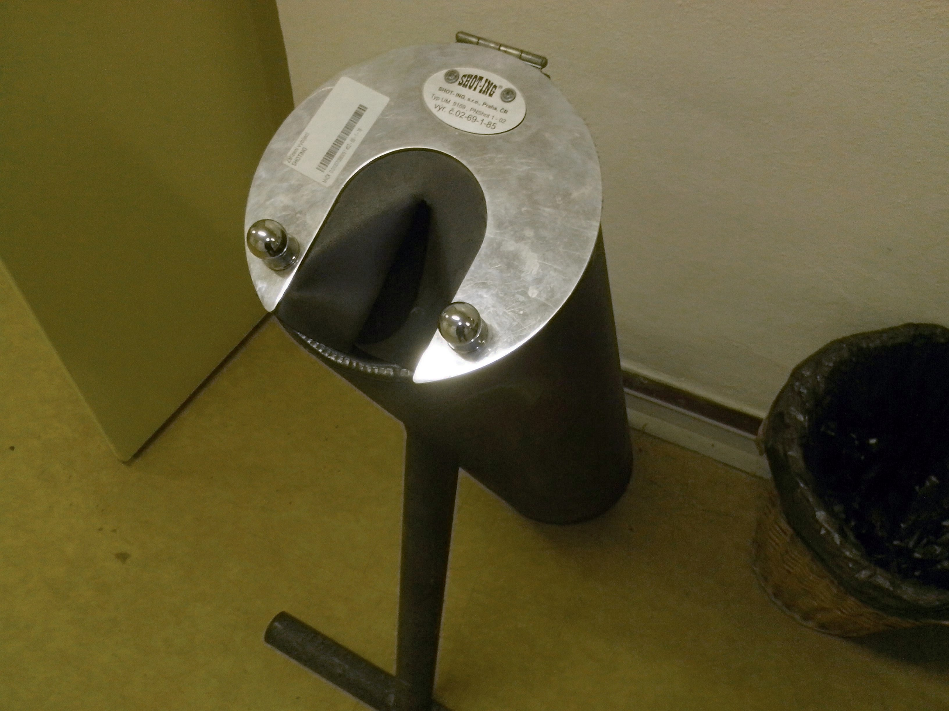 Discharge device - a barrel for civilians to check unloaded status of their firearms when entering a police station in Karviná, Czech Republic. After unloading, a person aims the firearm into the barrel and dry fires it.